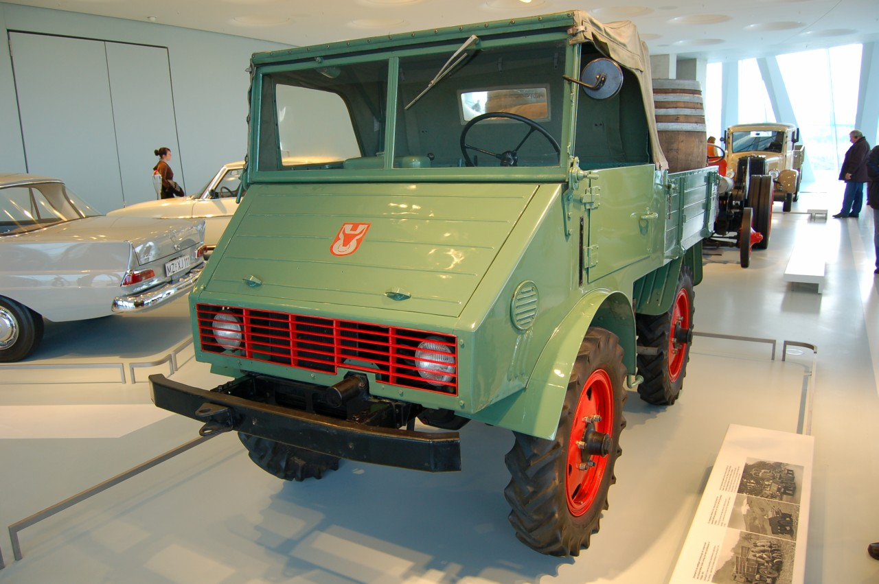 Unimog with the bulls-head trade mark, manufactured at Boehringer Werkzeugmaschinen GmbH in Göppingen before the takeover of Unimog by Mercedes-Benz; 25 hp, all-wheel-drive, year of manufacture 1948, on exhibition at the Mercedes-Benz Museum.